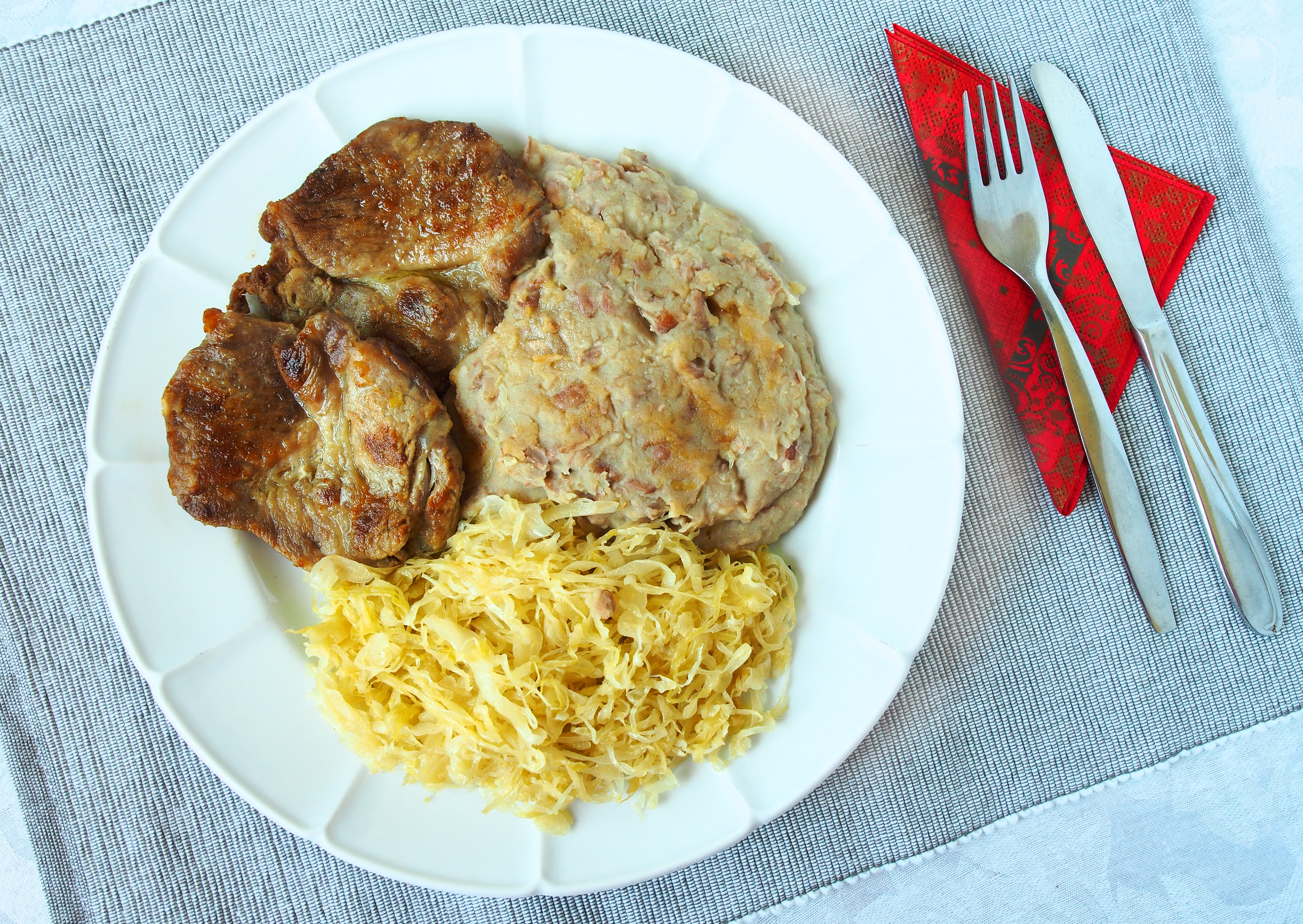 Matevž (Slovenian cuisine) with roast meat and sauerkraut. This photograph was taken with an Olympus E-P5